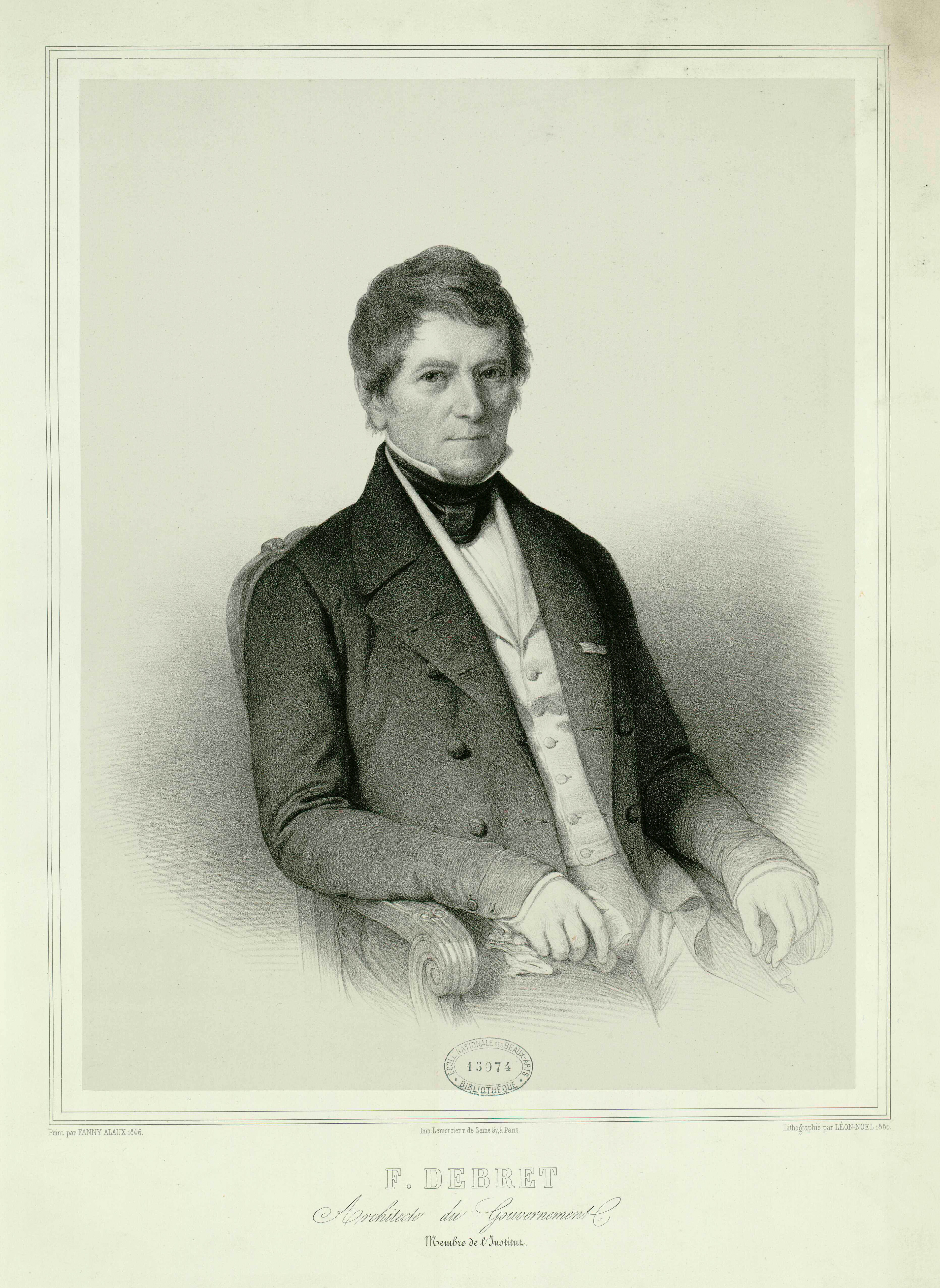 François Debret (1777–1850), French architect, who designed the Salle Le Peletier